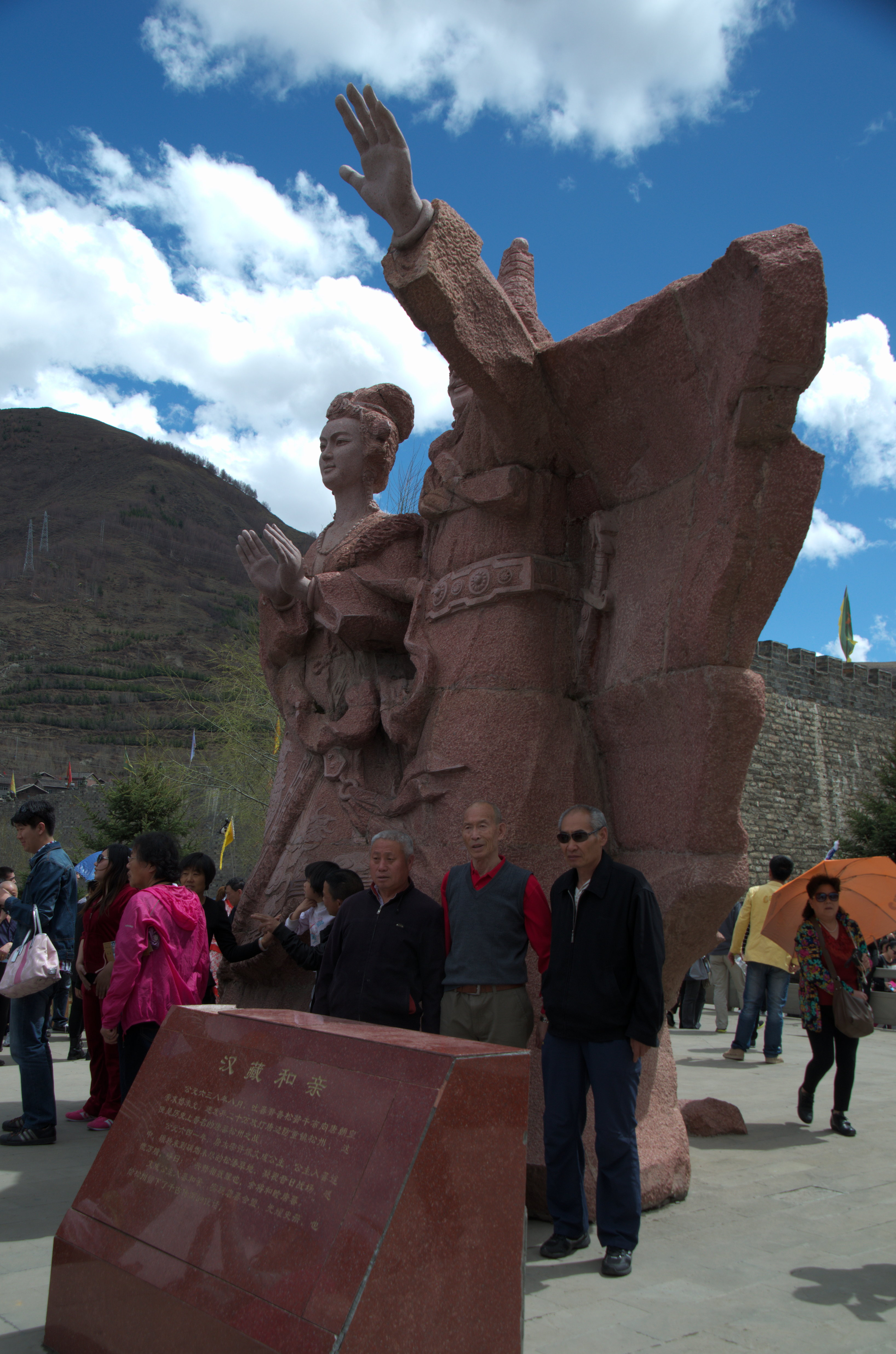 Tourists taking picture of themselves in the front of Princess Wencheng (Chinese princess) and Songtsän Gampo (Tibetan king), devant la porte et le mur d'enceinte de l'ancien Songzhou (松州). Princess Wencheng bring bouddhism to Tibet, they maried, and Songtsän Gampo, stopped to try to invade China.